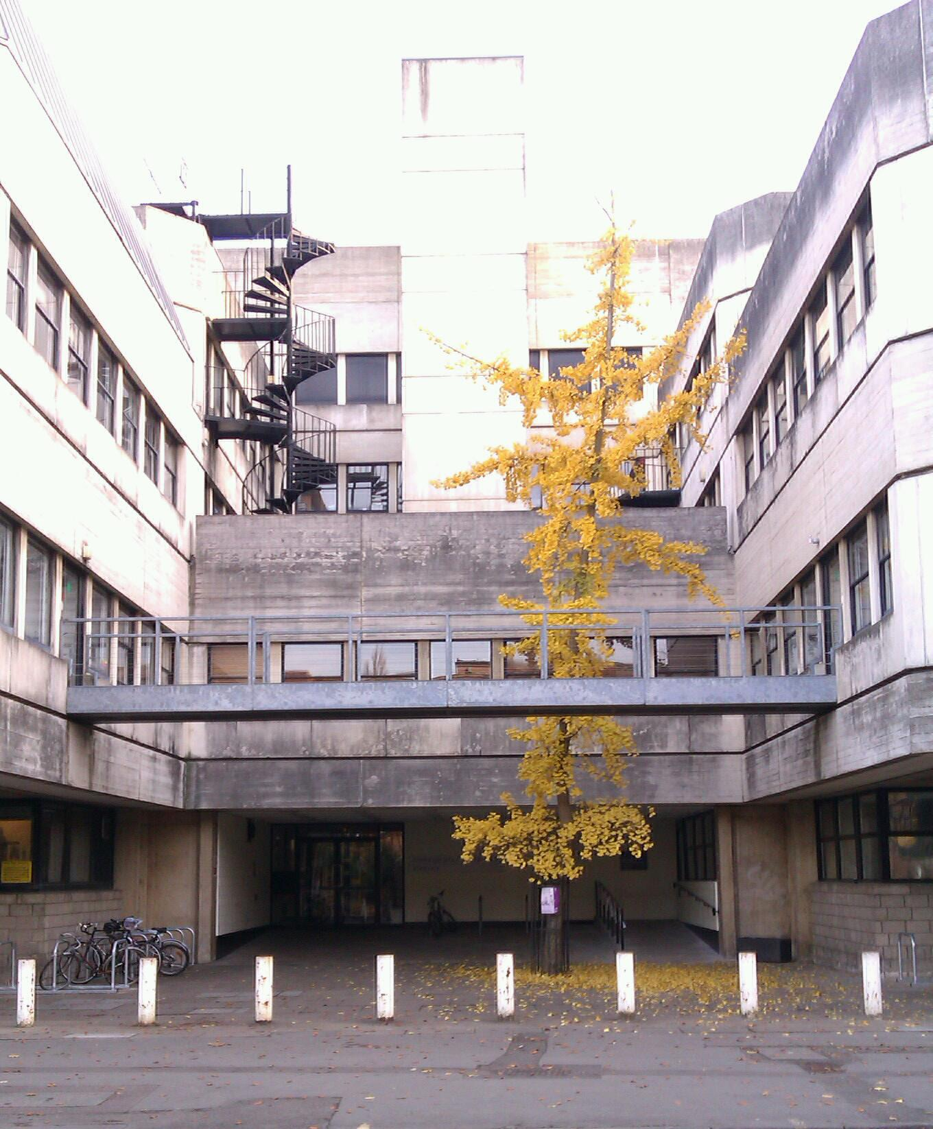 The Tinbergen Building on South Parks Road, Oxford. Part of the university Zoology department. Described by the university itself as fully accessible but quite a warren!.